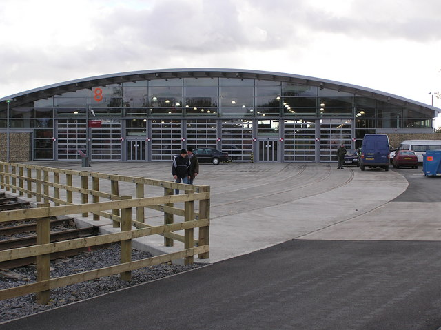 Locomotion